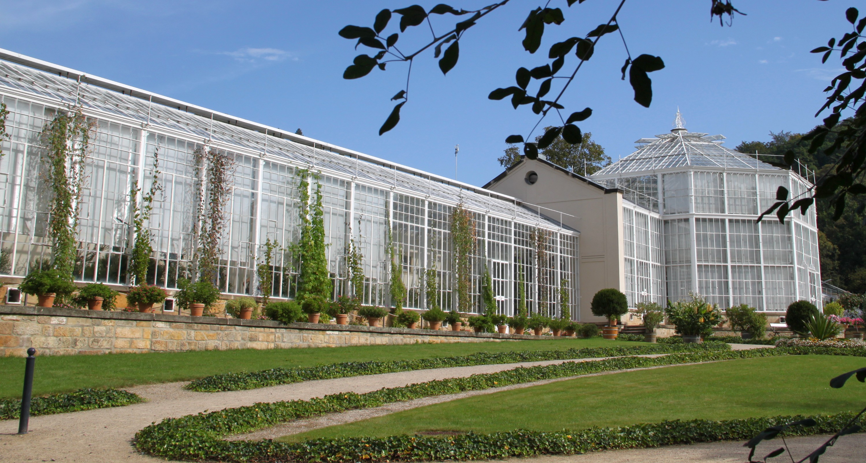 Greenhouse in the park of Pillnitz Castle